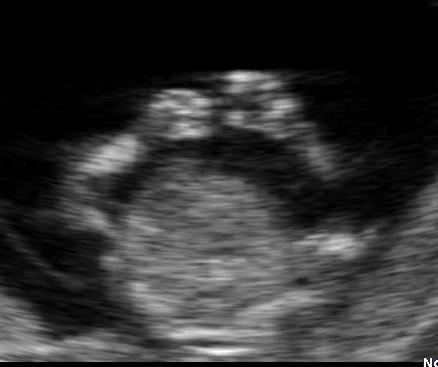 Deux bras d'un embryon de 12 semaines .Two arms of embryo at 12 weeks (profile).